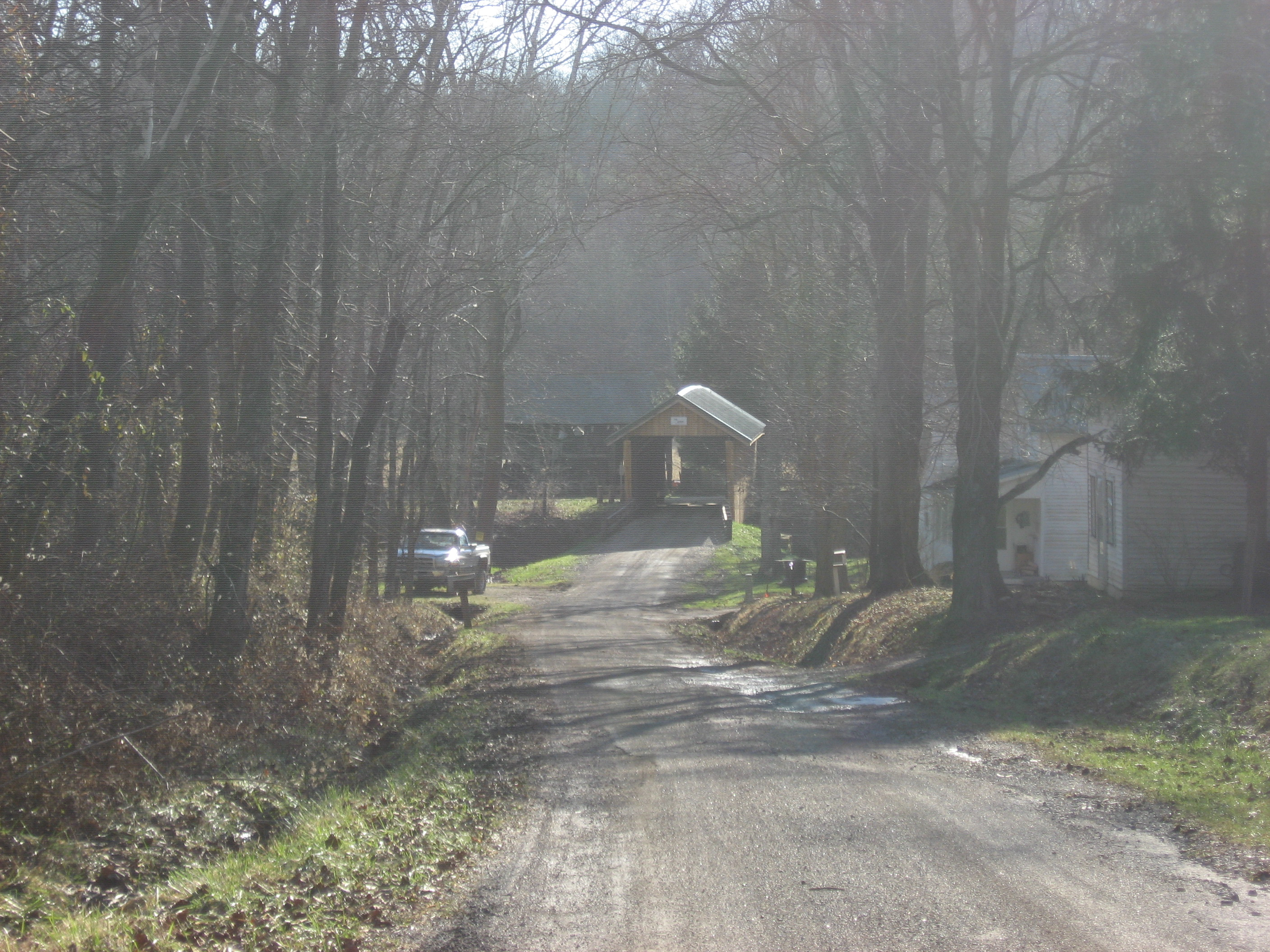 Distant view from the north of the Adams Covered Bridge, located at the end of a dead-end road south of San Toy in Union Township, Morgan County, Ohio, United States. Built in 1875, it is listed on the National Register of Historic Places. A closer photo was not practical, as the bridge is situated functionally amid a private farmstead.